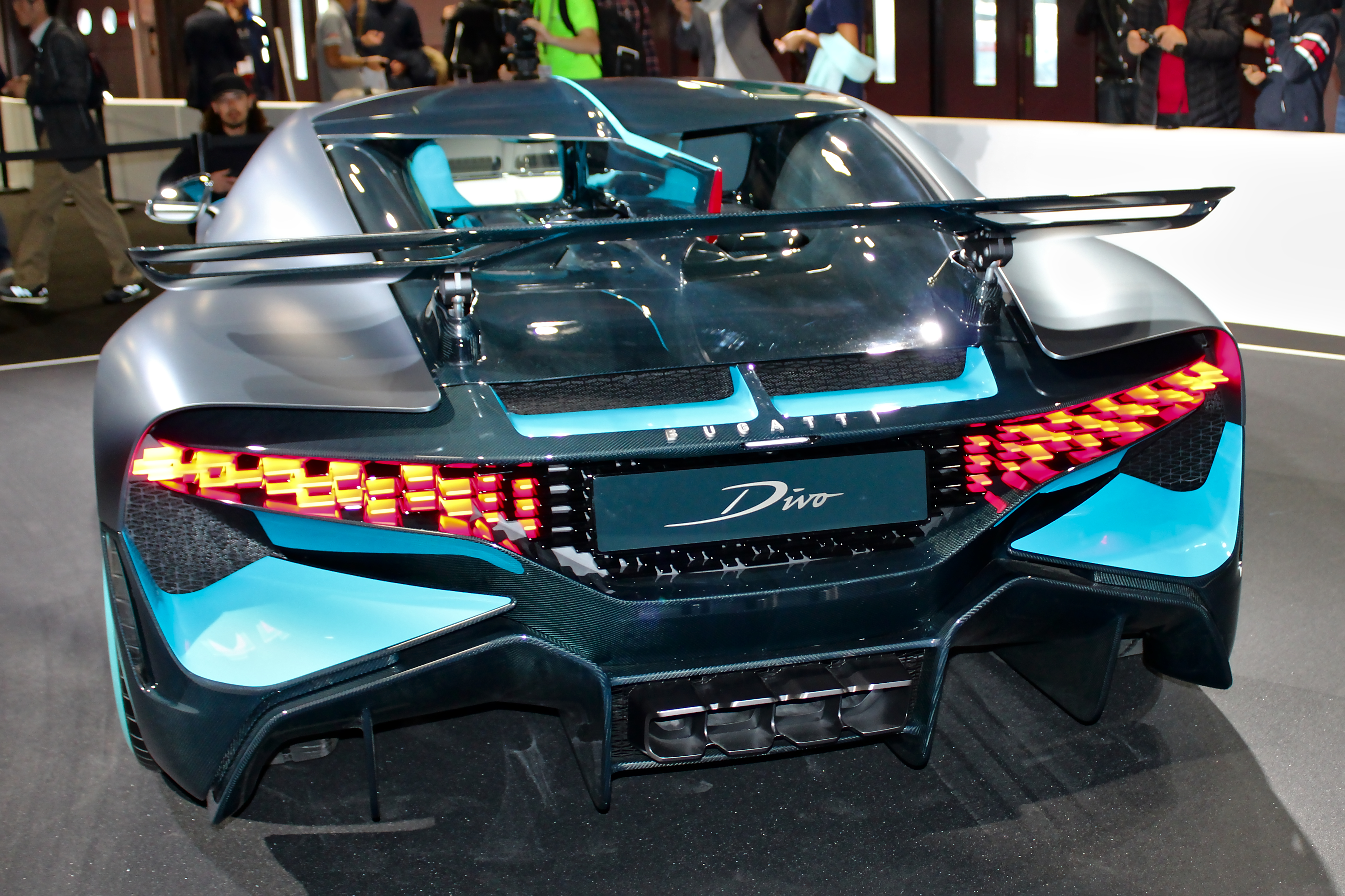 Bugatti Divo at Paris Motor Show 2018